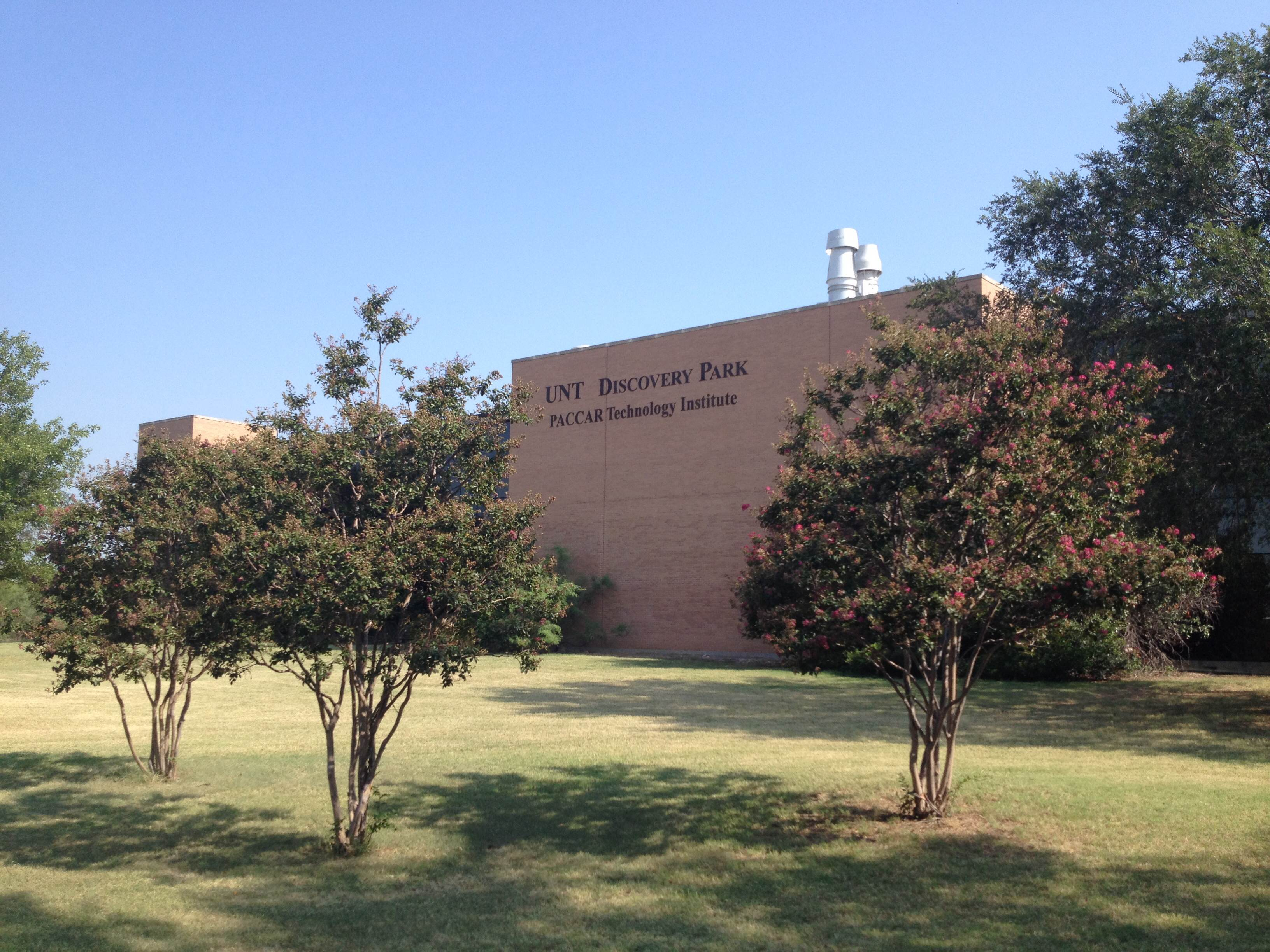 Picture of the outside of the Discovery Park building at the University of North Texas